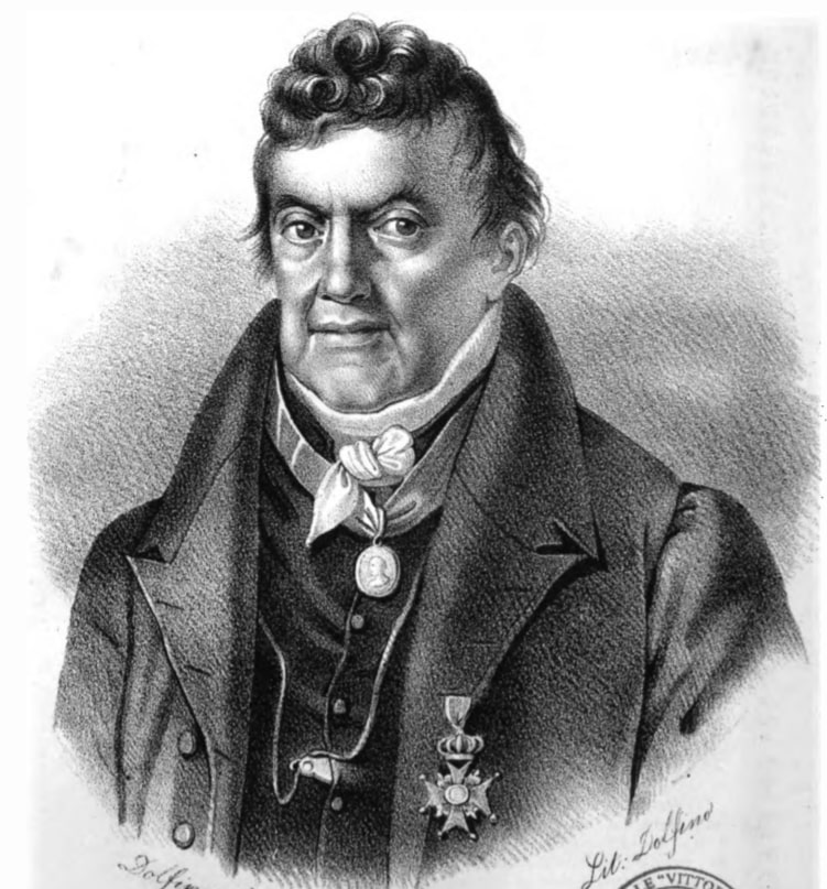 Pietro Pisani